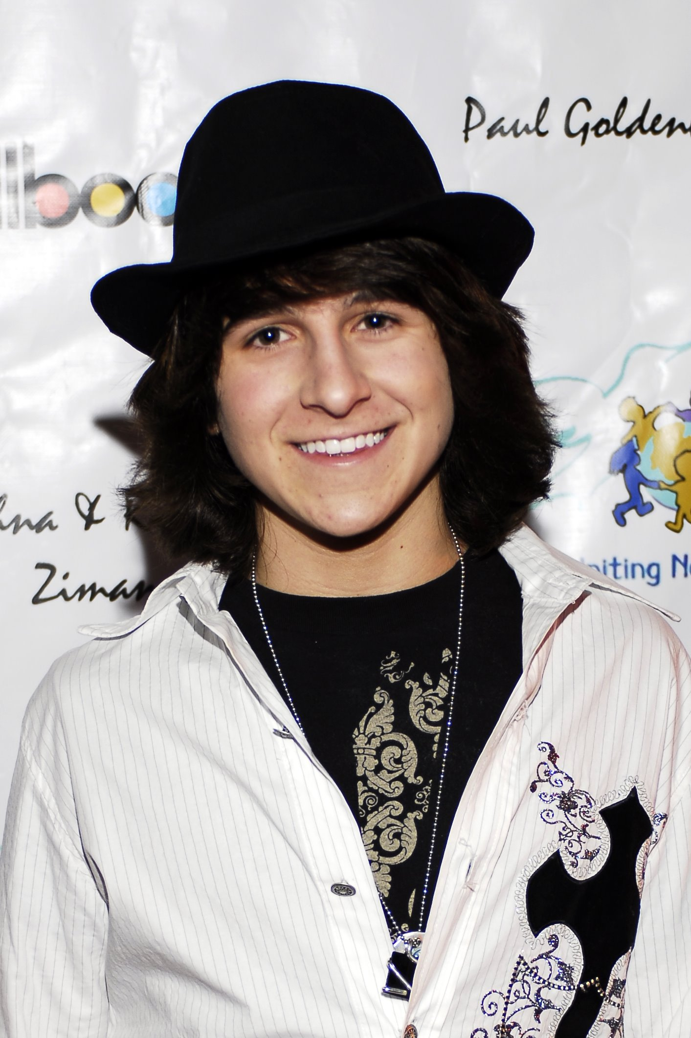 Mitchel Musso at the 79th Annual Academy Awards Children Uniting Nations/Billboard afterparty.